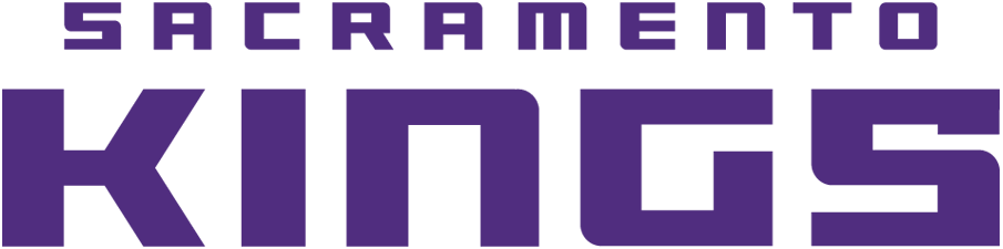 Sacramento Kings wordmark logo